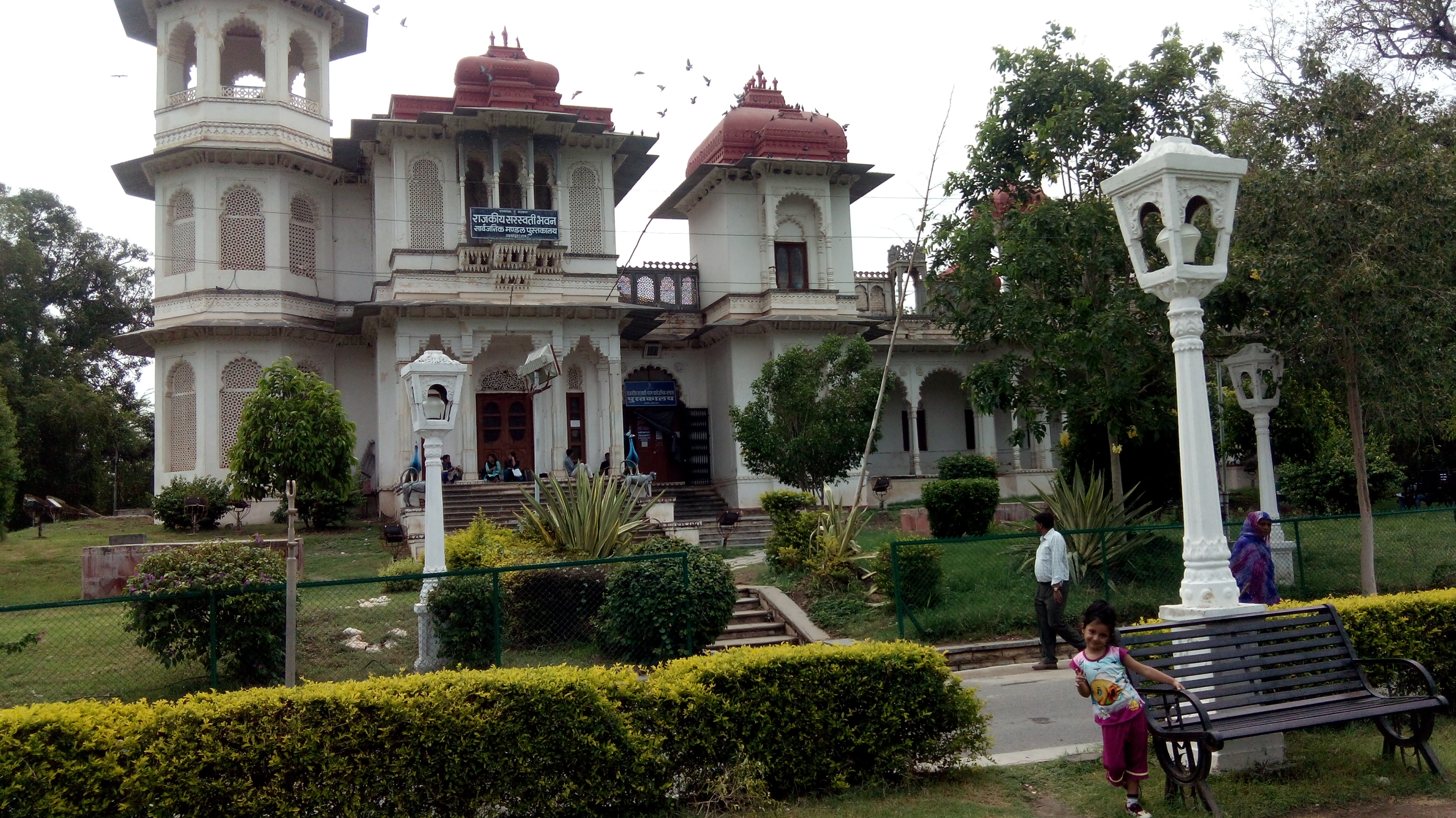 Picture showing front view of the Saraswati Public Library, situated inside the Gulab Bagh Garden.